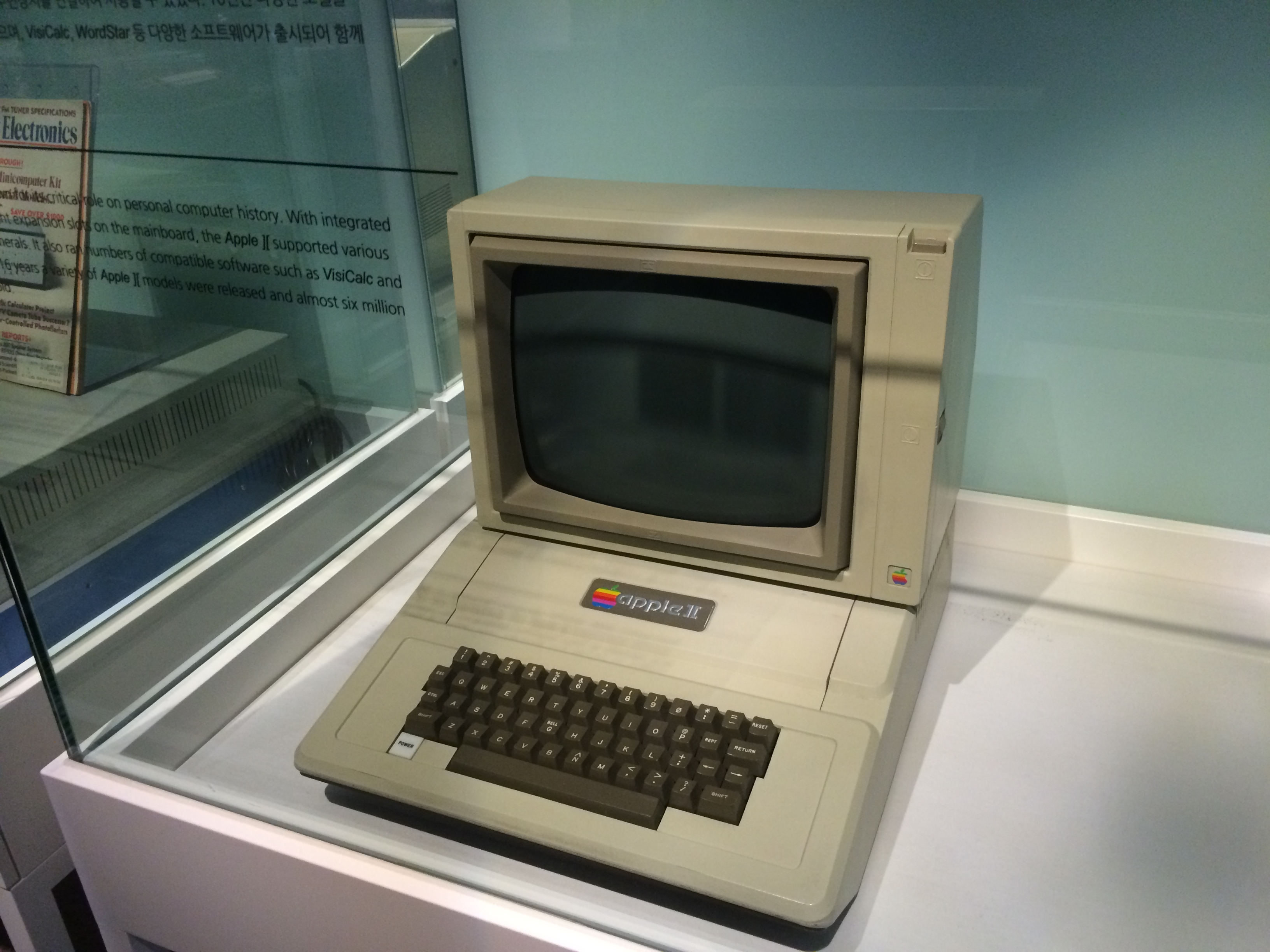 Apple produced Apple II in 1977